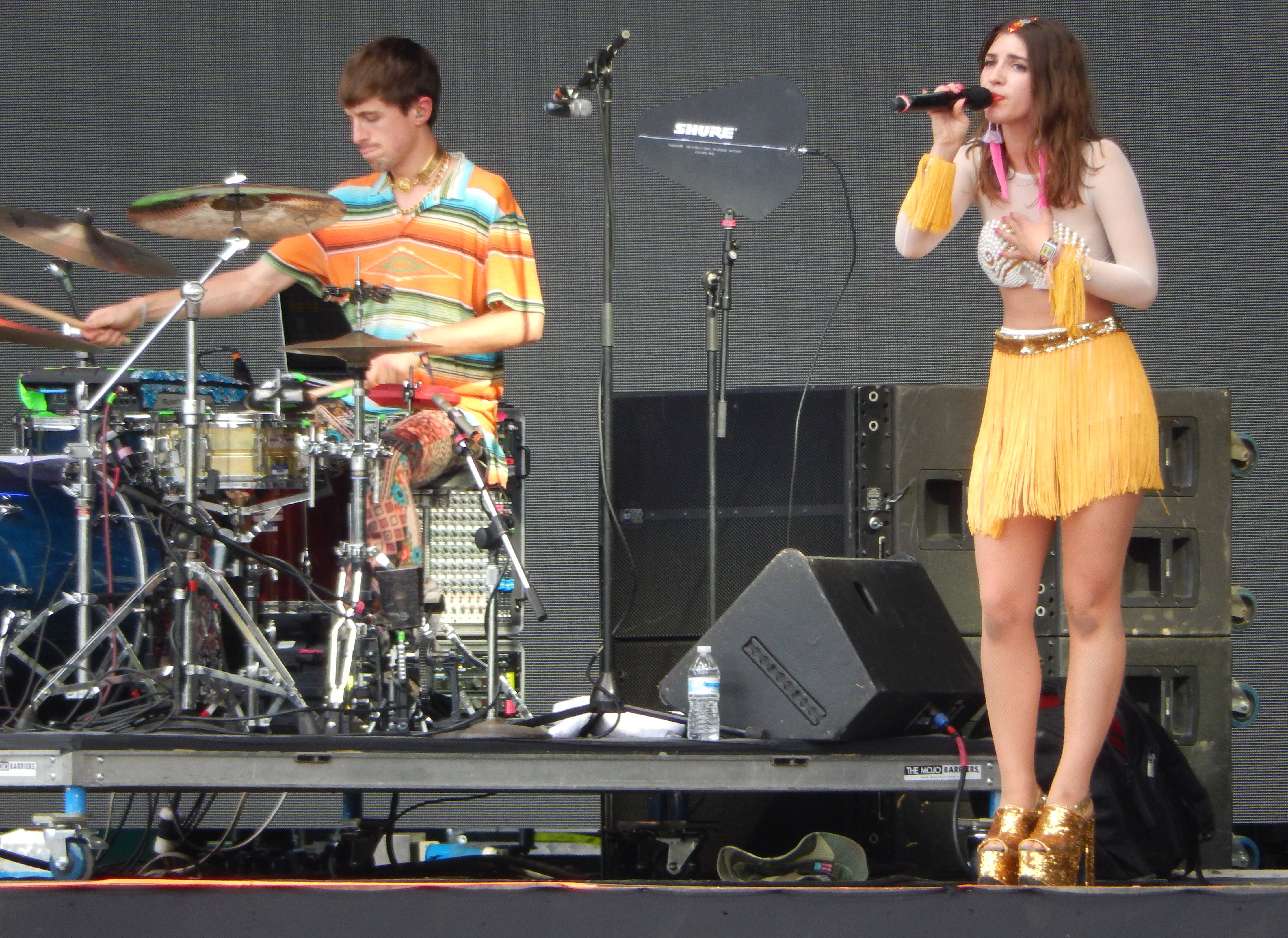 HOLYCHILD performing at Lollapalooza in Chicago on August 1, 2015.